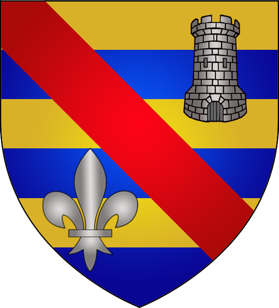 Coat of arms of the municipality of Hesperange, Luxembourg